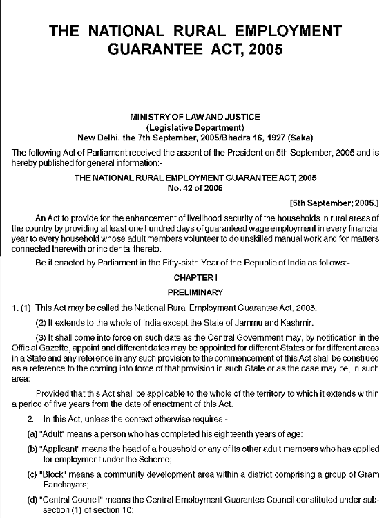 Indian law NREGA page 1